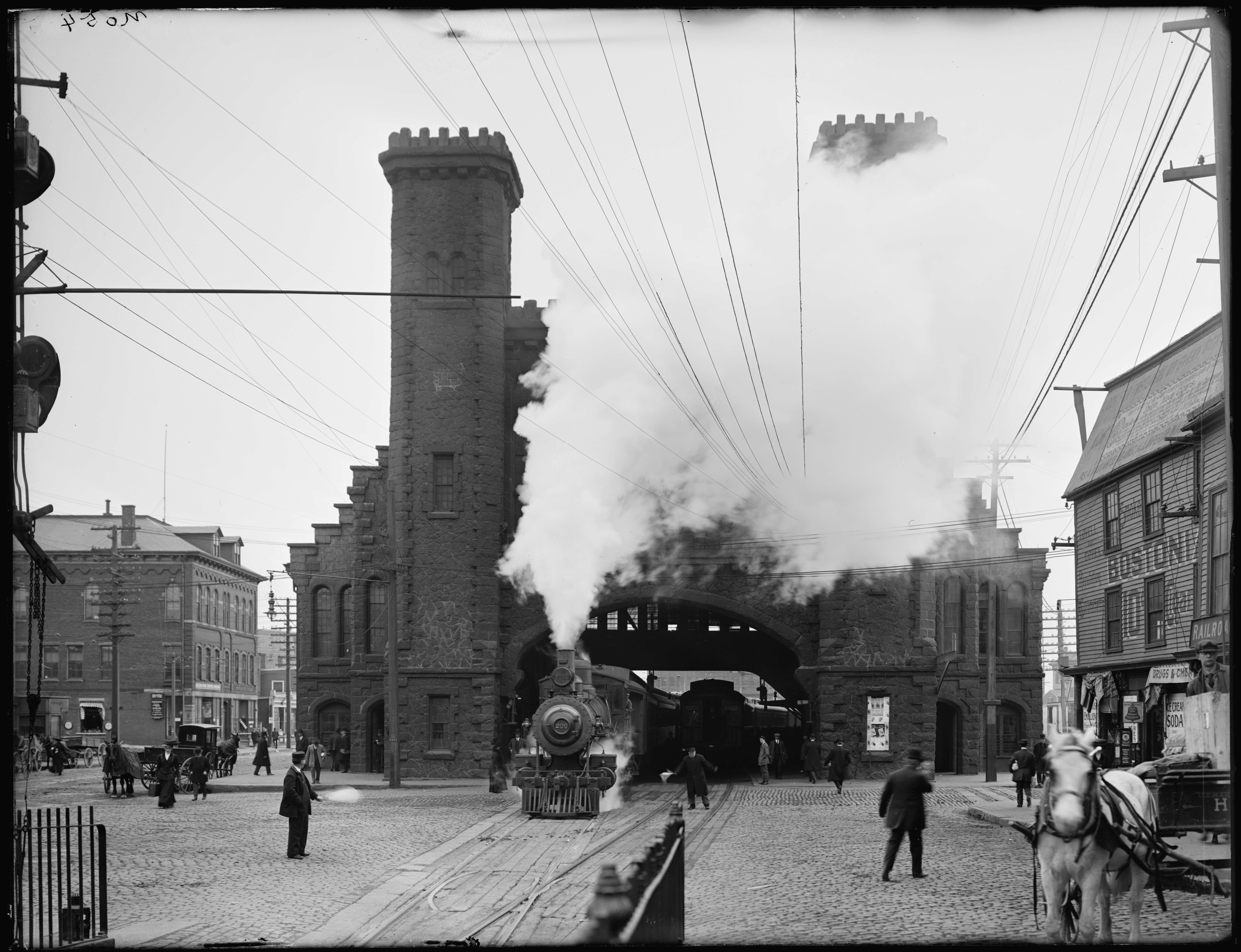 Boston and Maine Railroad depot, Riley Plaza, Salem, Mass.